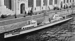 The Turbinia at the Paris World Exhibition 1900